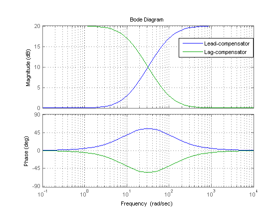 Bode plot of lead–lag compensator